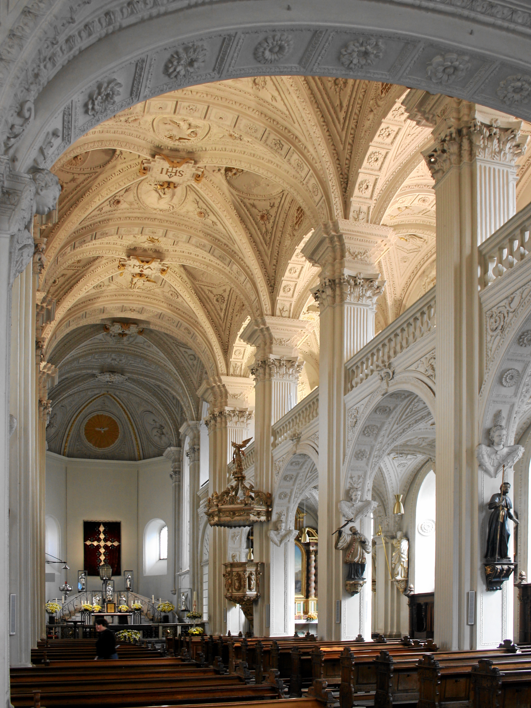 Düsseldorf, Germany. Roman-catholic church Saint Andreas, nave towards North.